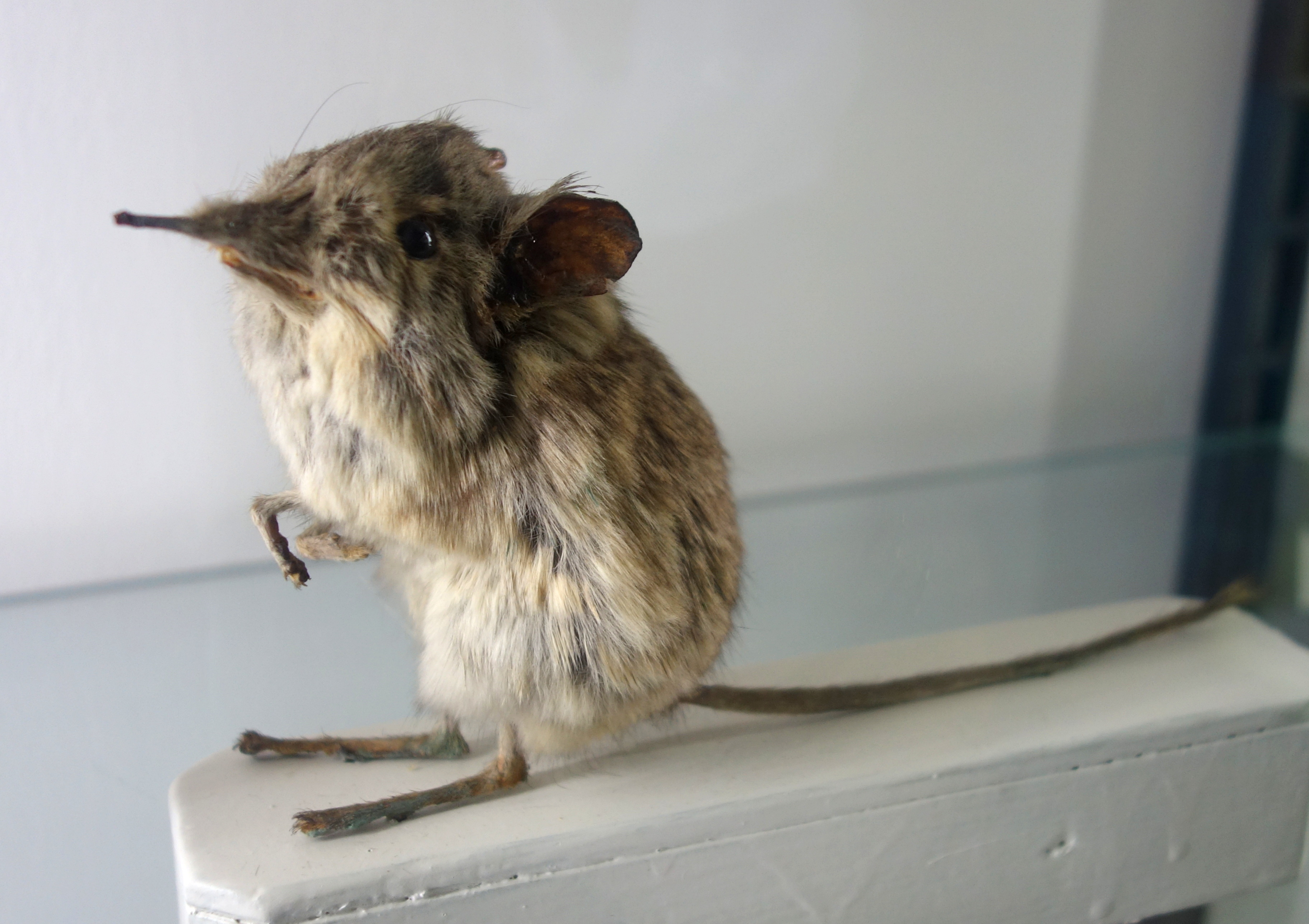 Exhibit in the Museo Civico di Storia Naturale di Genova, Via Brigata Liguria, 9, 16121, Genoa, Italy.